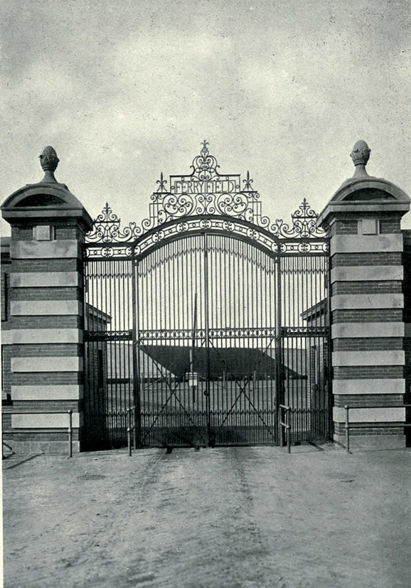 Photograph of ornamental gate to Ferry Field